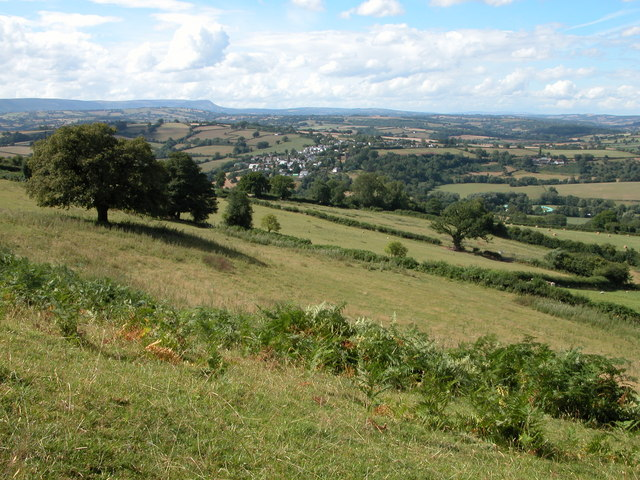 View over Grosmont. View of Grosmont from the Three Castles Walk above Cross on the northern slopes of Graig Syfyrddin.